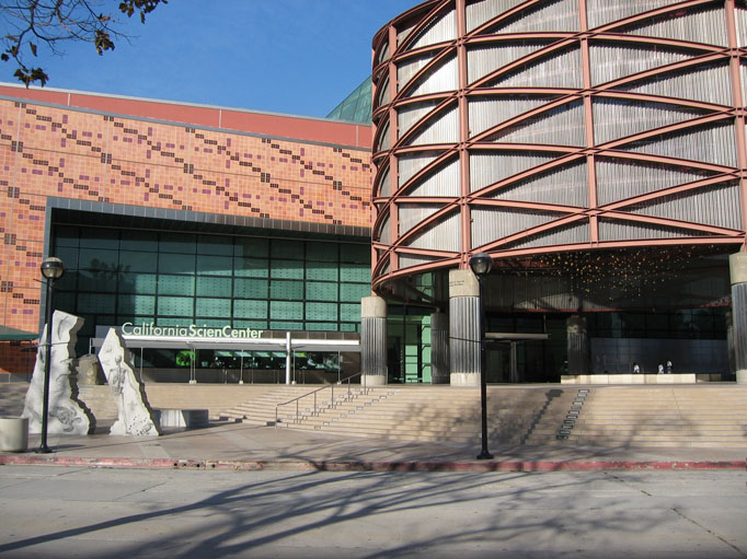 Entrance and facade of the California Science Center museum. Located in Exposition Park, central Los Angeles, Southern California. transfer from Wikipedia